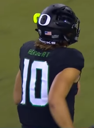 Justin Herbert